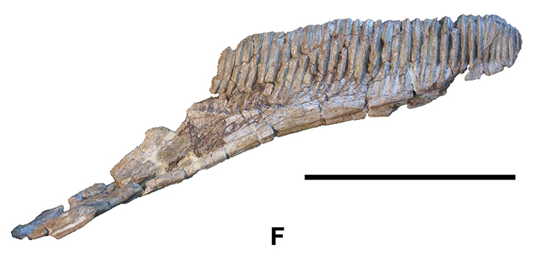 ‘Koutalisaurus kohlerorum’ (Ornithopoda, Lambeosaurinae; indeterminate lambeosaurine sensu Prieto-Márquez et al. 2013), right dentary (IPS 29920 (formerly IPS SRA 27) in medial view (‘lower red unit’ of the Tremp Formation, Les Llaus near Sant Romà d’Abella, Lleida)